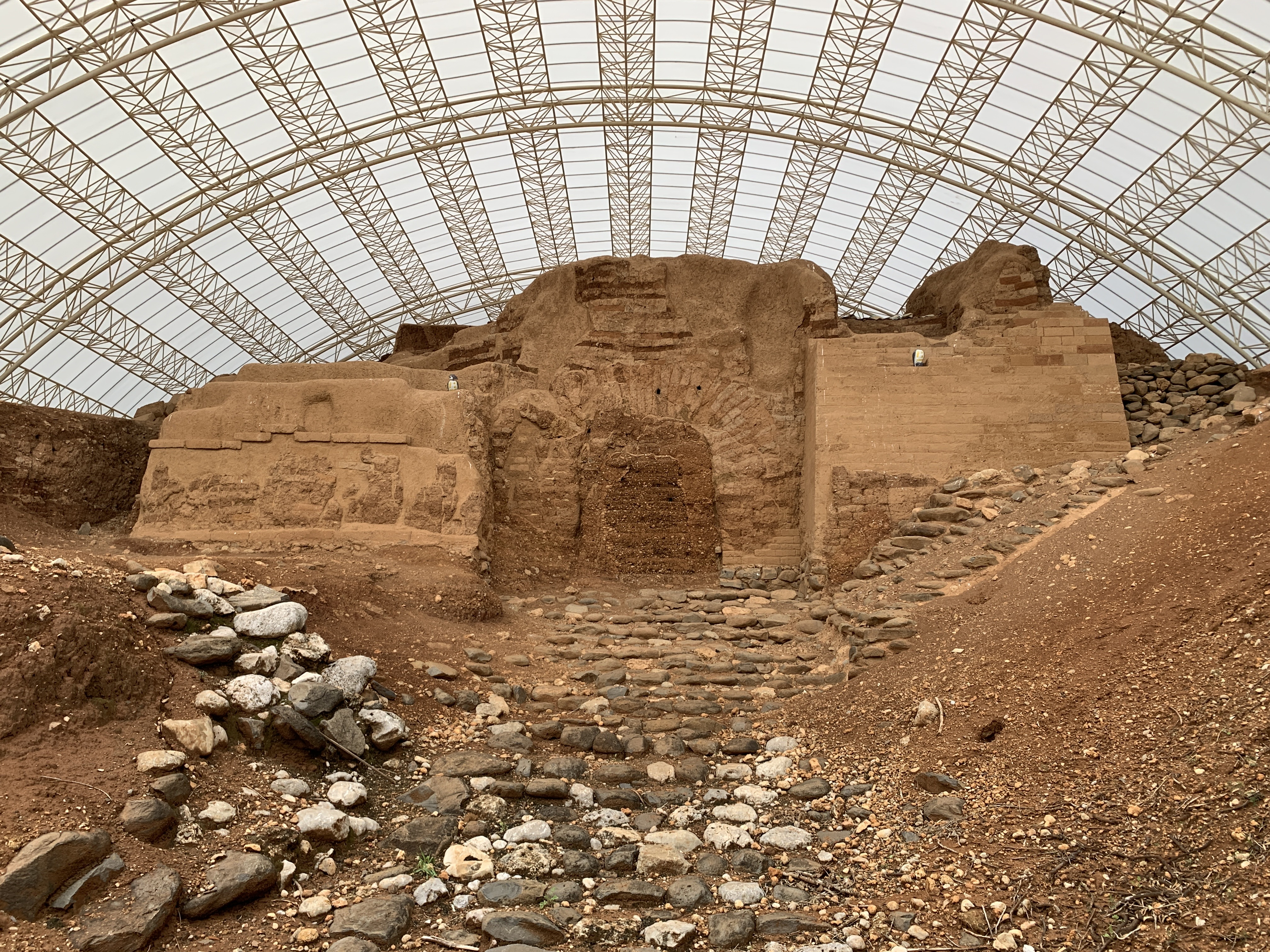 This gate is one of the oldest, if not the oldest remaining gate in the world. It is believed and tested to be a gate from around 4000 years ago built during the era of Abraham from the Christian bible. The gate is built from mud brick and therefore is covered to prevent it from falling apart.